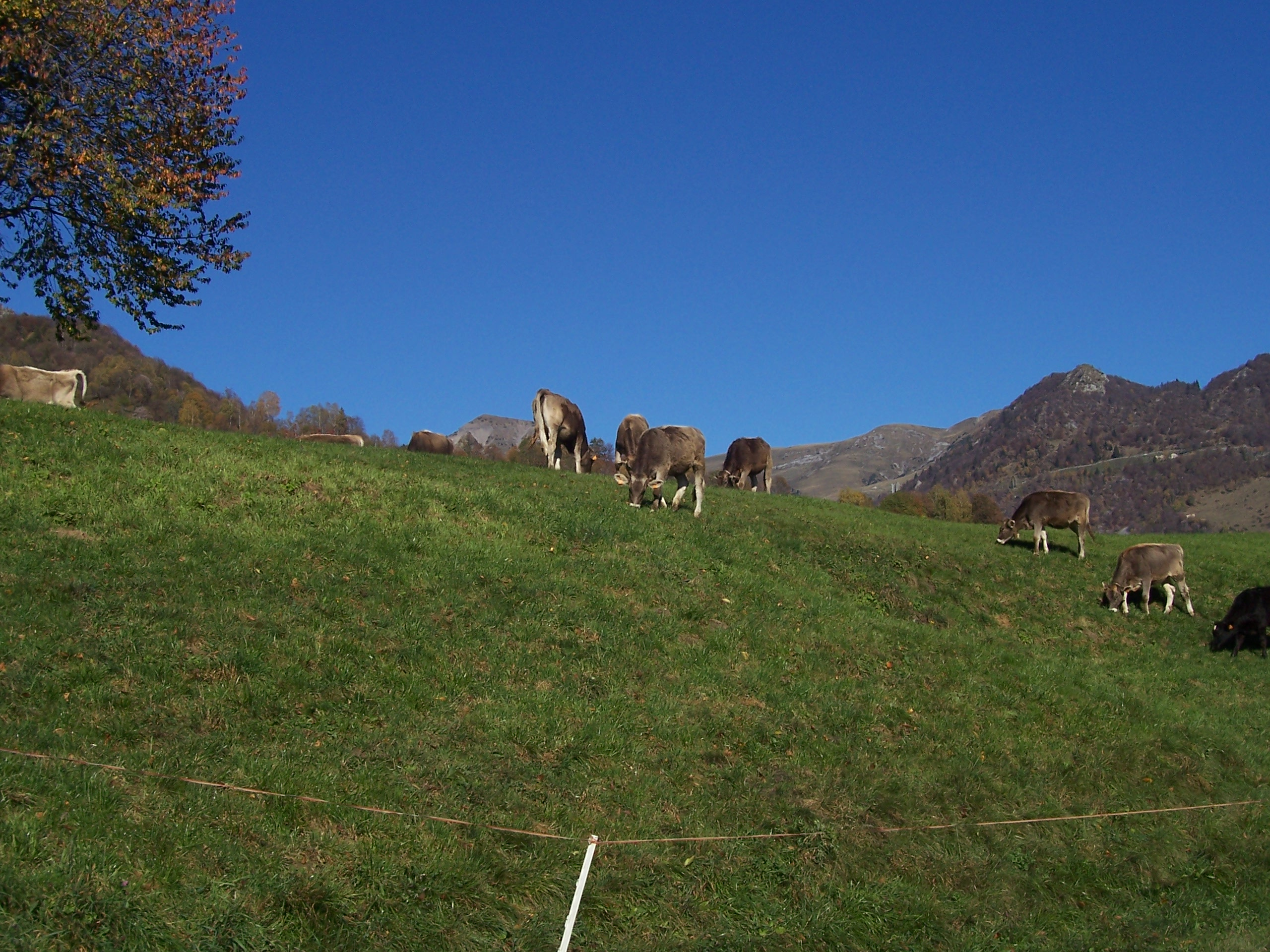 Pasture in Vedeseta, Lombardy, Italy